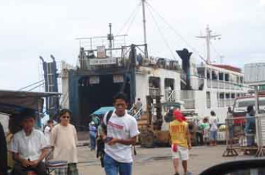 Looc Harbor - Plaridel, Misamis Occidental